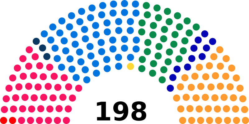 Seats diagramme of Swiss National Council (1922)